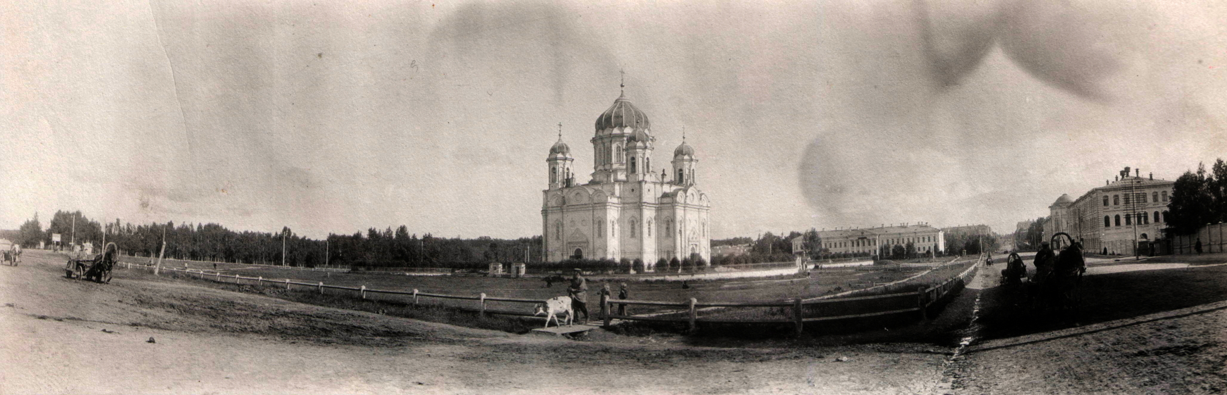 Tomsk, Cathedral Square